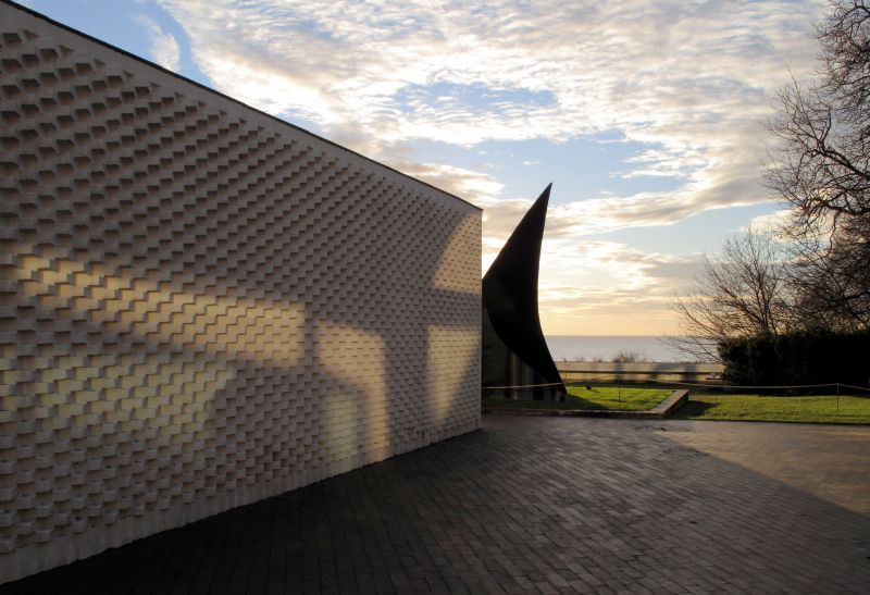 Louisiana Museum of Modern Art